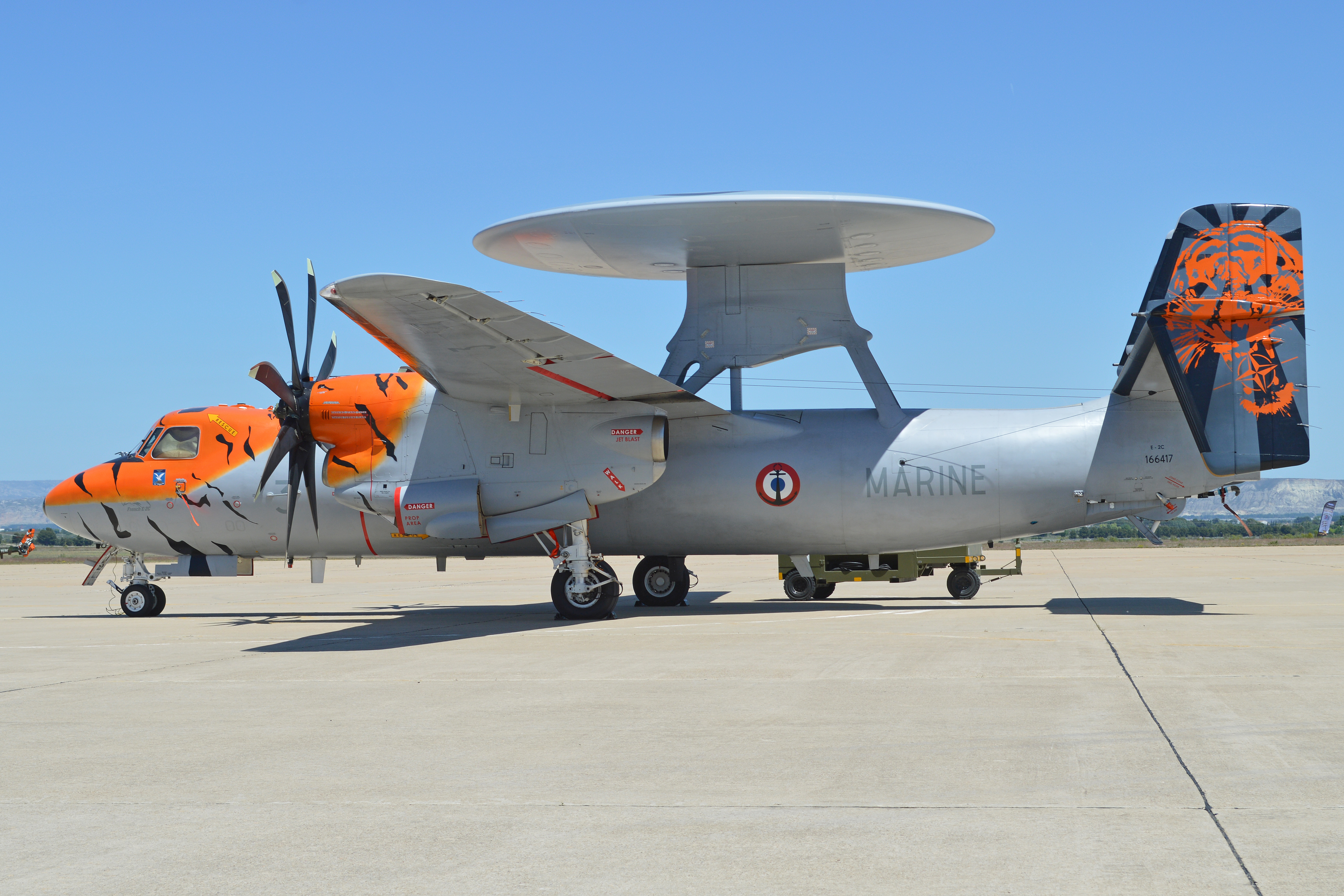 c/n FR-3. Allocated US Navy Bureau No 166417. Operated by 4 Flotille (4F), Aeronavale. Seen during the 2016 NATO Tiger Meet (NTM), Zaragoza Air Base, Spain. 20-5-2016